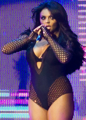 Little Mix